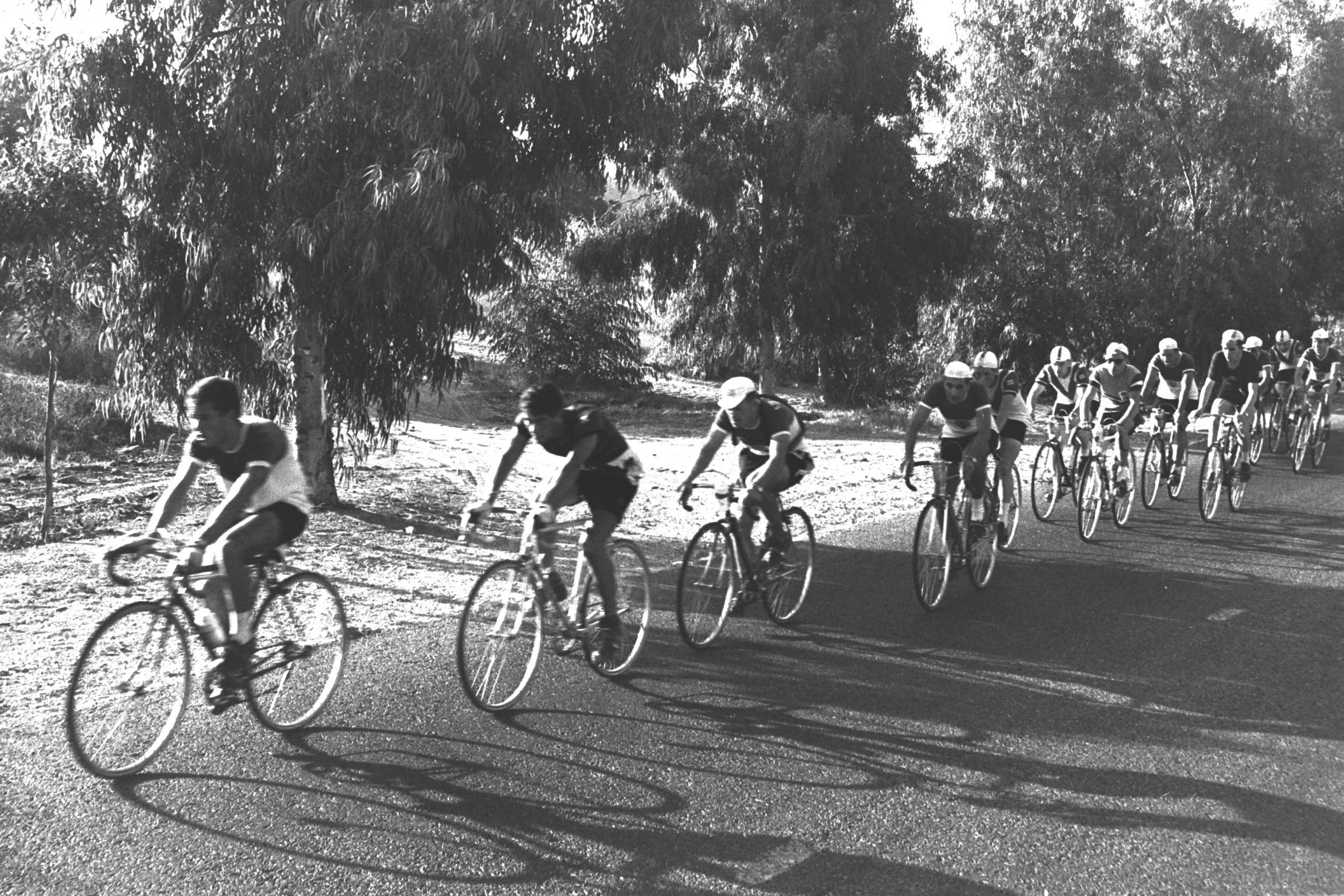 A BIKING COMPETITION DURING THE 5TH MACCABIA GAMES.